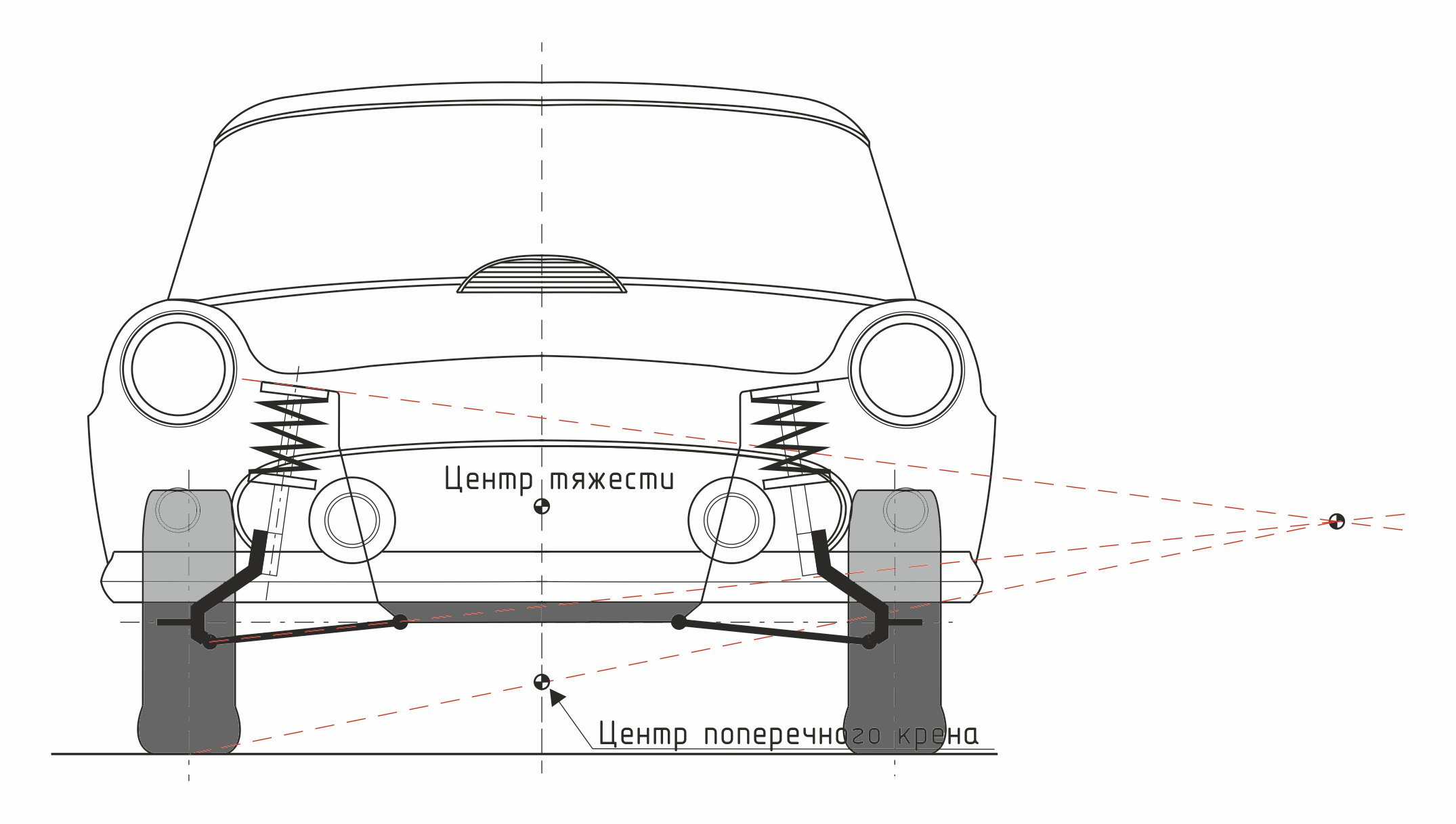 Finding roll center of a McPherson strut suspension.